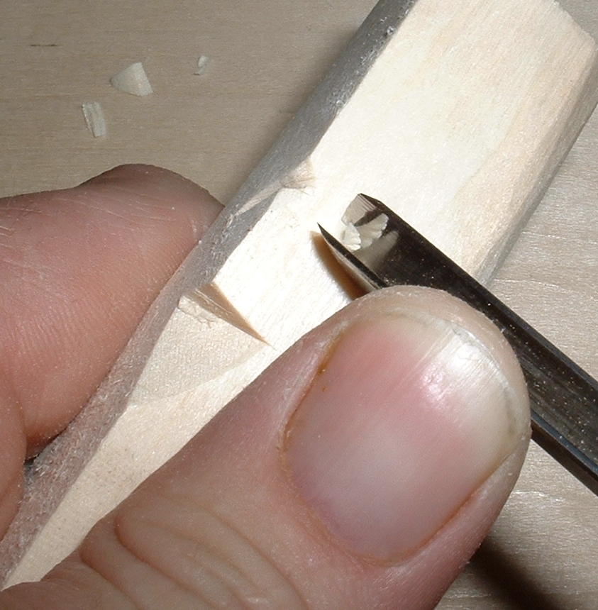 V tool Carving Wood Photographer: (L. B. Ehrler)